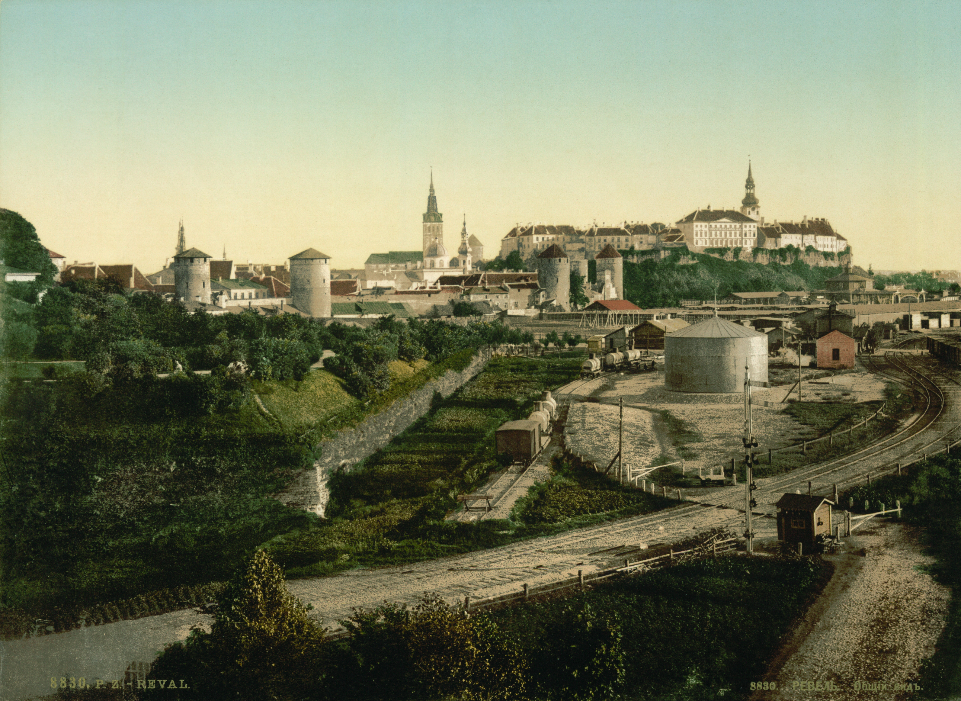 General view, Reval, Russian Empire (now Tallinn, Estonia). Photochrom print.